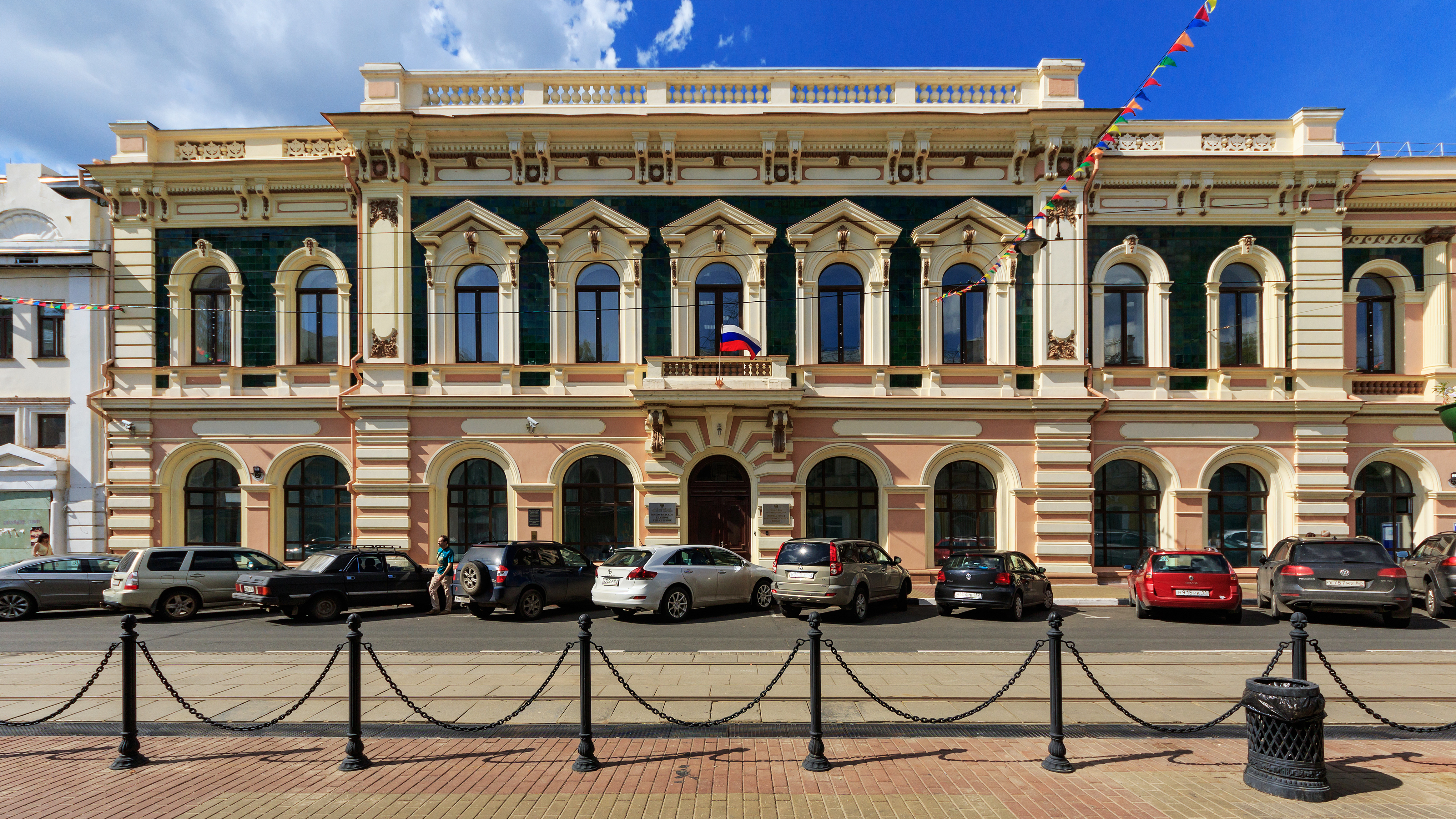 Building at 27, Rozhdestvenskaya Street in Nizhny Novgorod, Russia